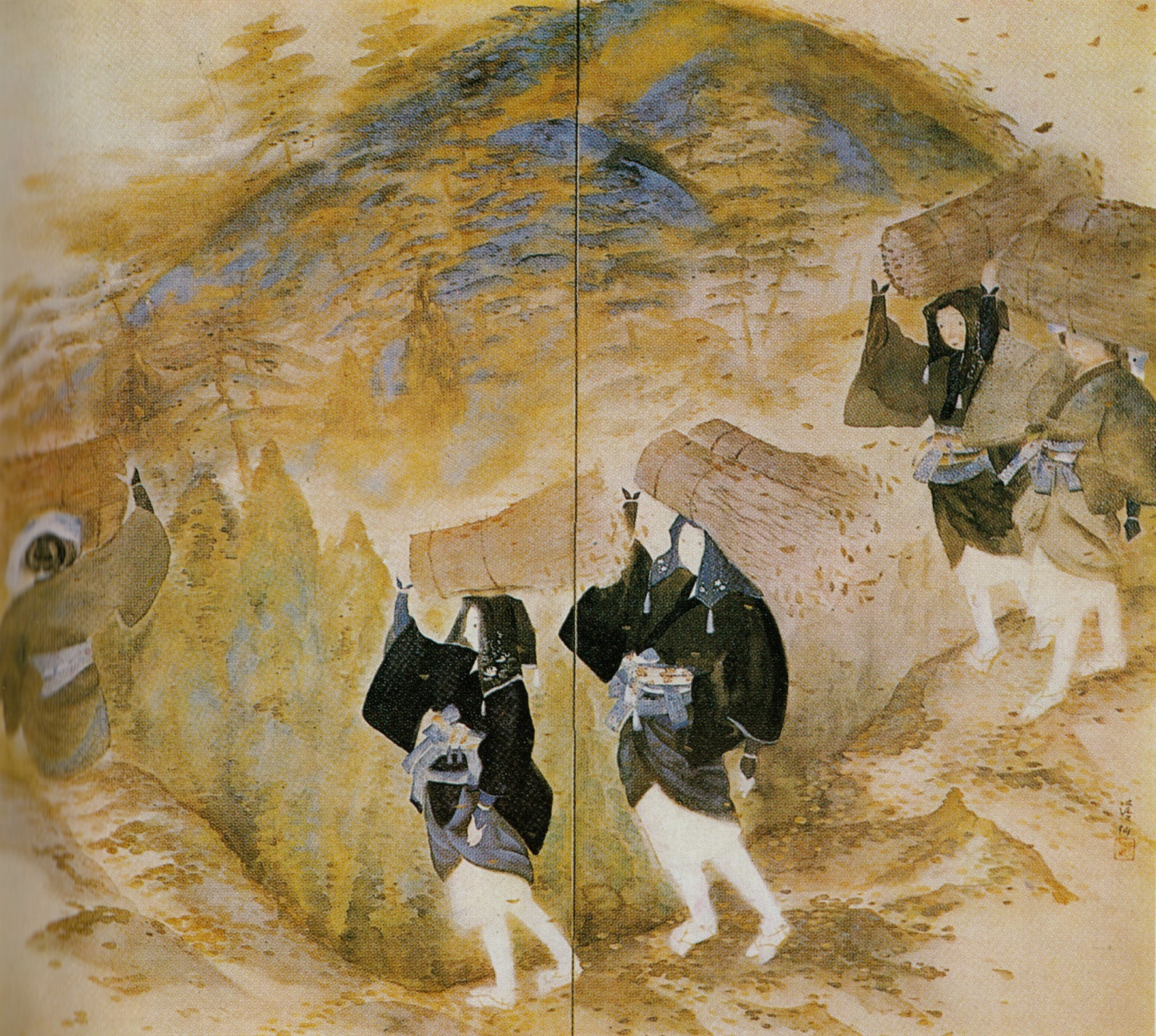 Right screen of a Pair, "Autumn in Ohara"